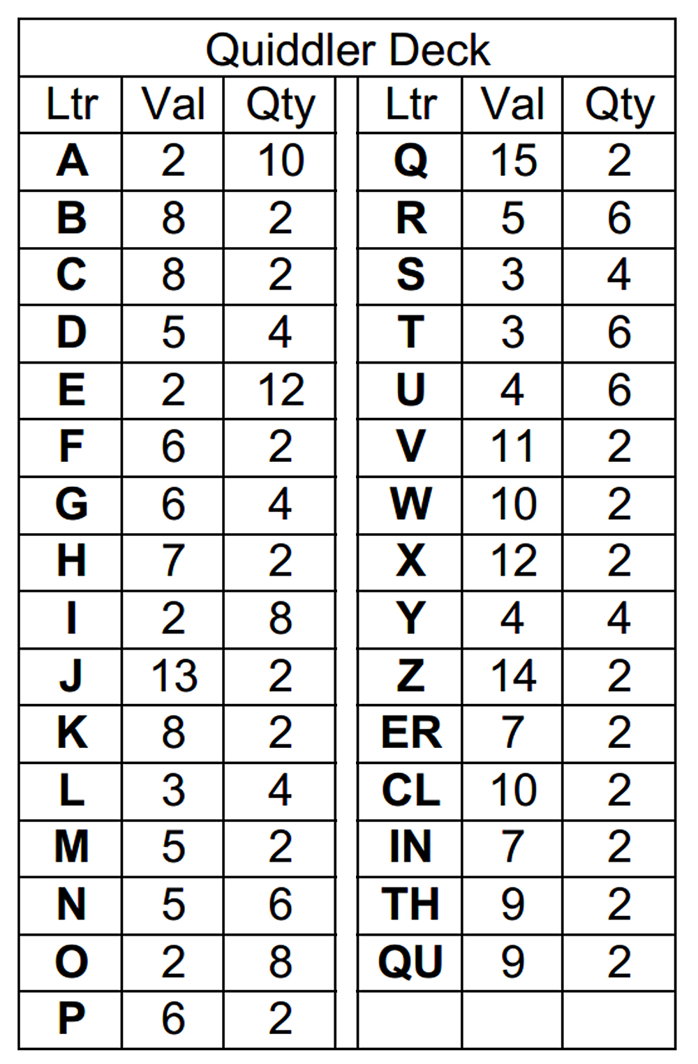 Breakdown of Quiddler deck with number of letters in deck and point values of each letter.